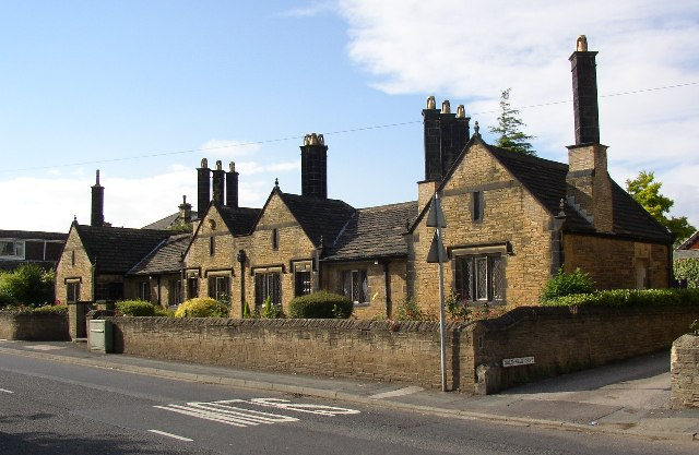 Almshouses, Scholes, Cleckheaton. On New Road East, at SE166259.